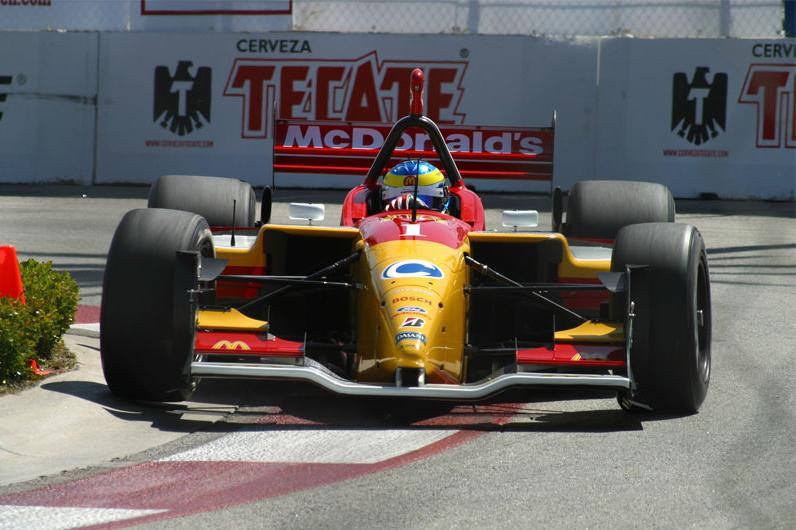 Sébastien Bourdais, 2005 Toyota Grand Prix of Long Beach, Long Beach California